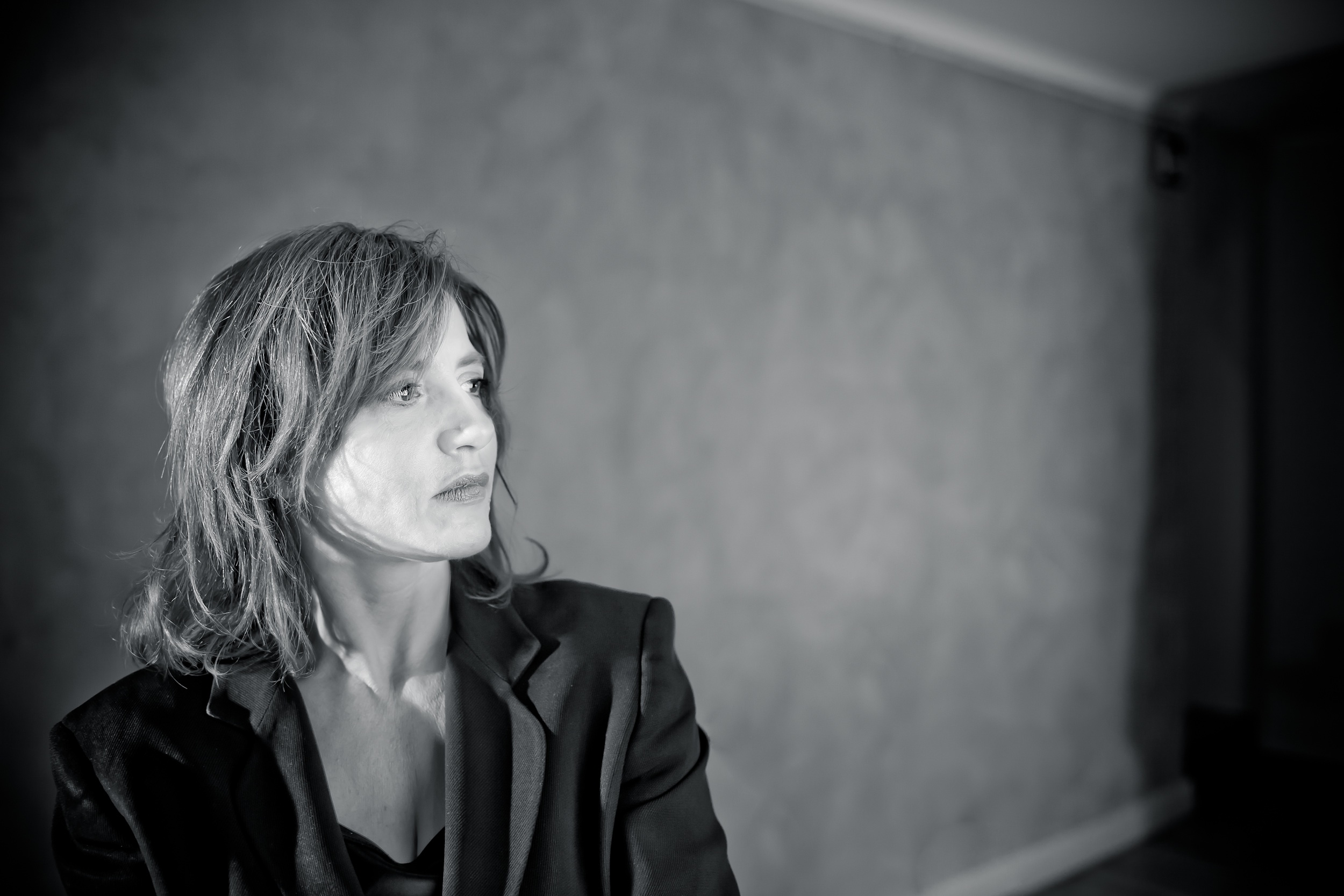 This photo shows the composer Lucia Ronchetti